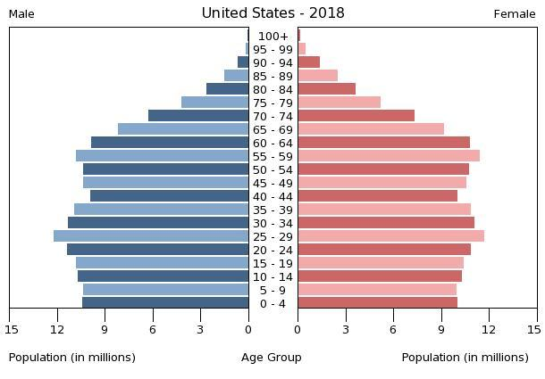 The population pyramid of the United States illustrates the age and sex structure of population and may provide insights about political and social stability, as well as economic development. The population is distributed along the horizontal axis, with males shown on the left and females on the right. The male and female populations are broken down into 5-year age groups represented as horizontal bars along the vertical axis, with the youngest age groups at the bottom and the oldest at the top. The shape of the population pyramid gradually evolves over time based on fertility, mortality, and international migration trends.